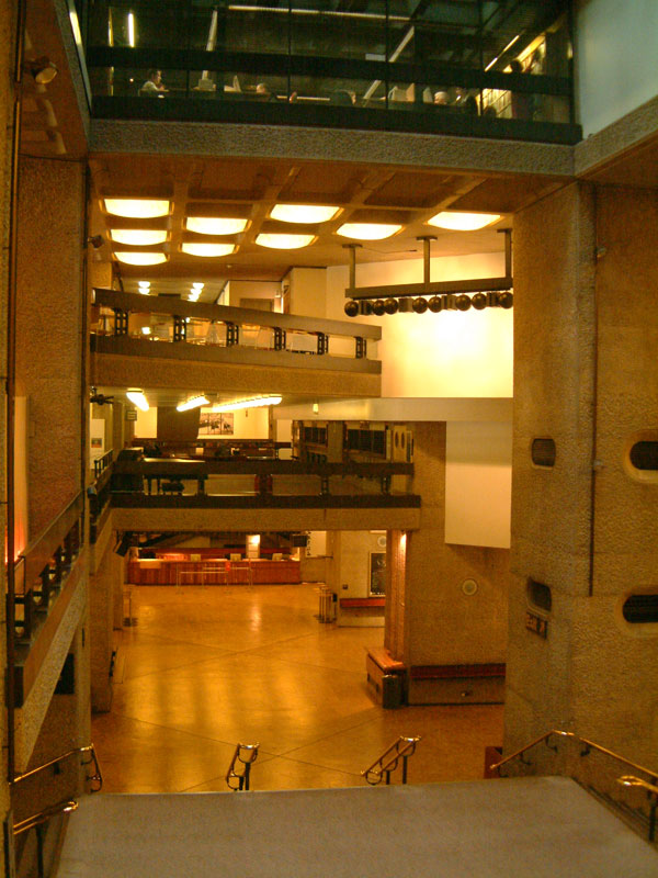 Barbican Arts Centre interior large photo